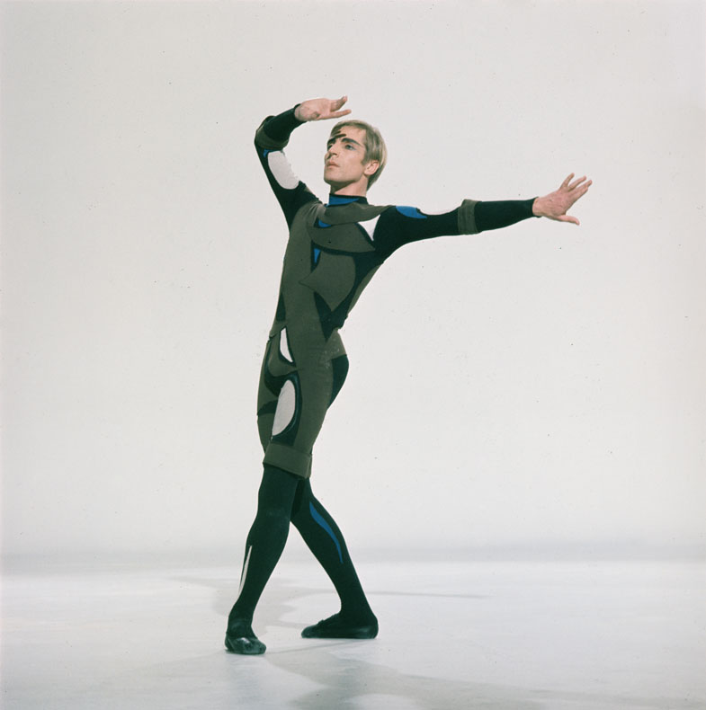 The danish dancer Erik Bruhn (1928-10-03 - 1986-04-01)